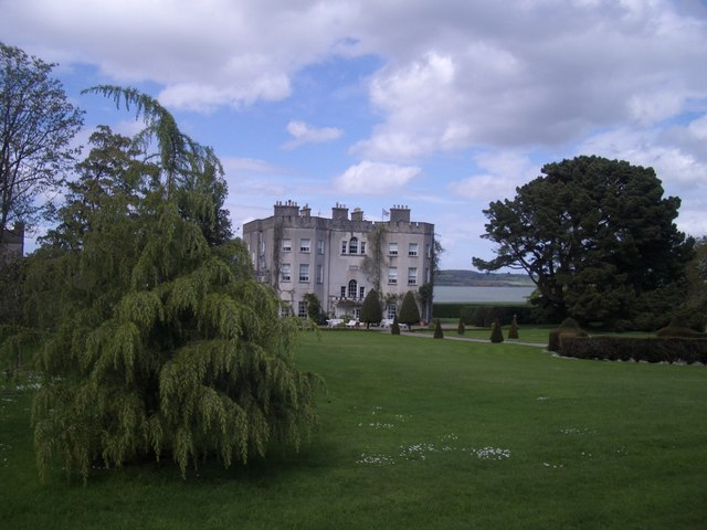 Glin Castle from the gardens, with the Shannon beyond